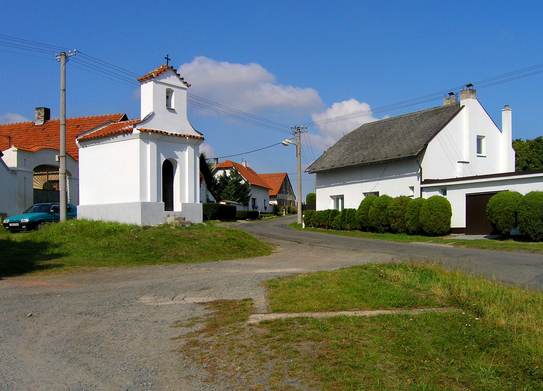 Common in Masojedy, Czech Republic